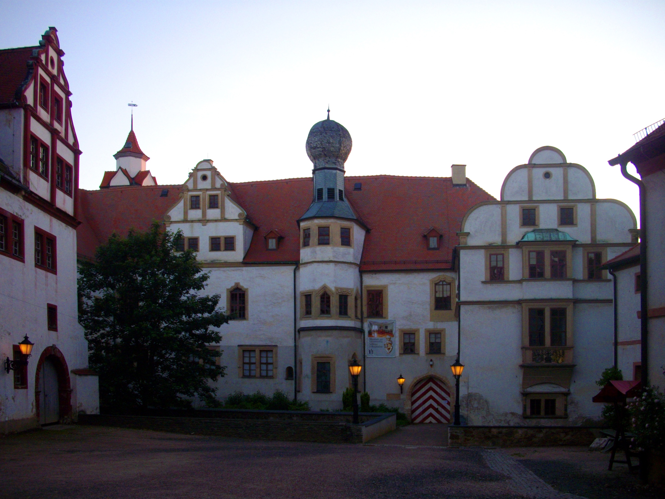 Castle in Glauchau near Chemnitz